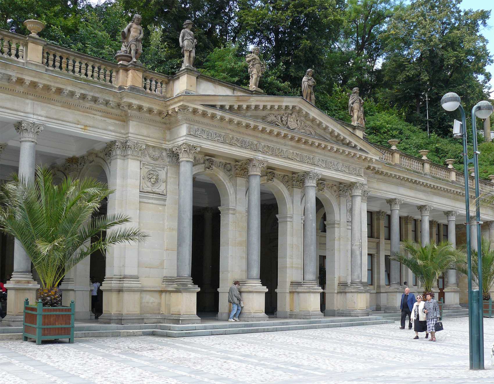 You can find fountains of medicinal water under this colonnade.